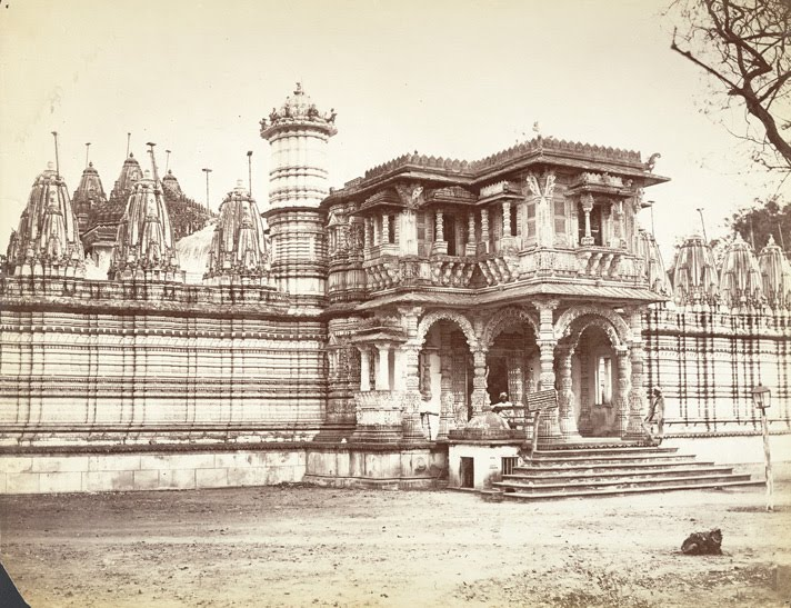 Photograph of the Jaina temple of Seth Hathisingh at Ahmadabad in Gujarat, taken by Charles Lickfold in the 1880s, part of the Bellew Collection of Architectural Views. The city contains a mix of Islamic, Jaina and Hindu architecture as well as Indo-Islamic blending of elements. This Jaina temple was built in 1848 in a revivalist style of medieaval Gujarati architecture.